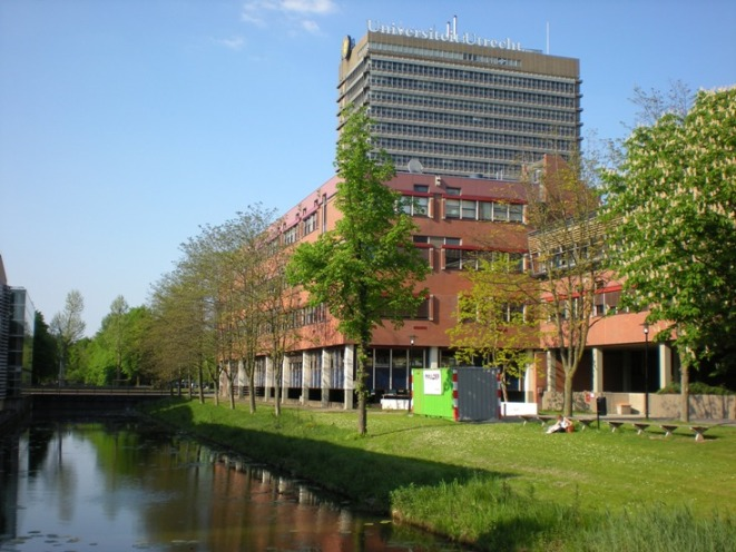 The new campus of Utrecht University in De Uithof groups houses the faculties of Science, Medicine, Veterinary Science and Geoscience, as well as the University Medical Centre. It also houses the school of Advanced Business Studies.